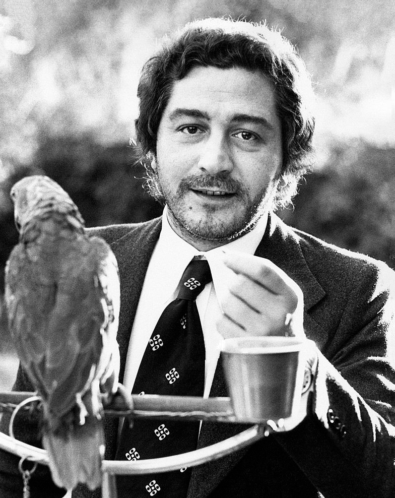 Portrait of Italian actor Renzo Montagnani